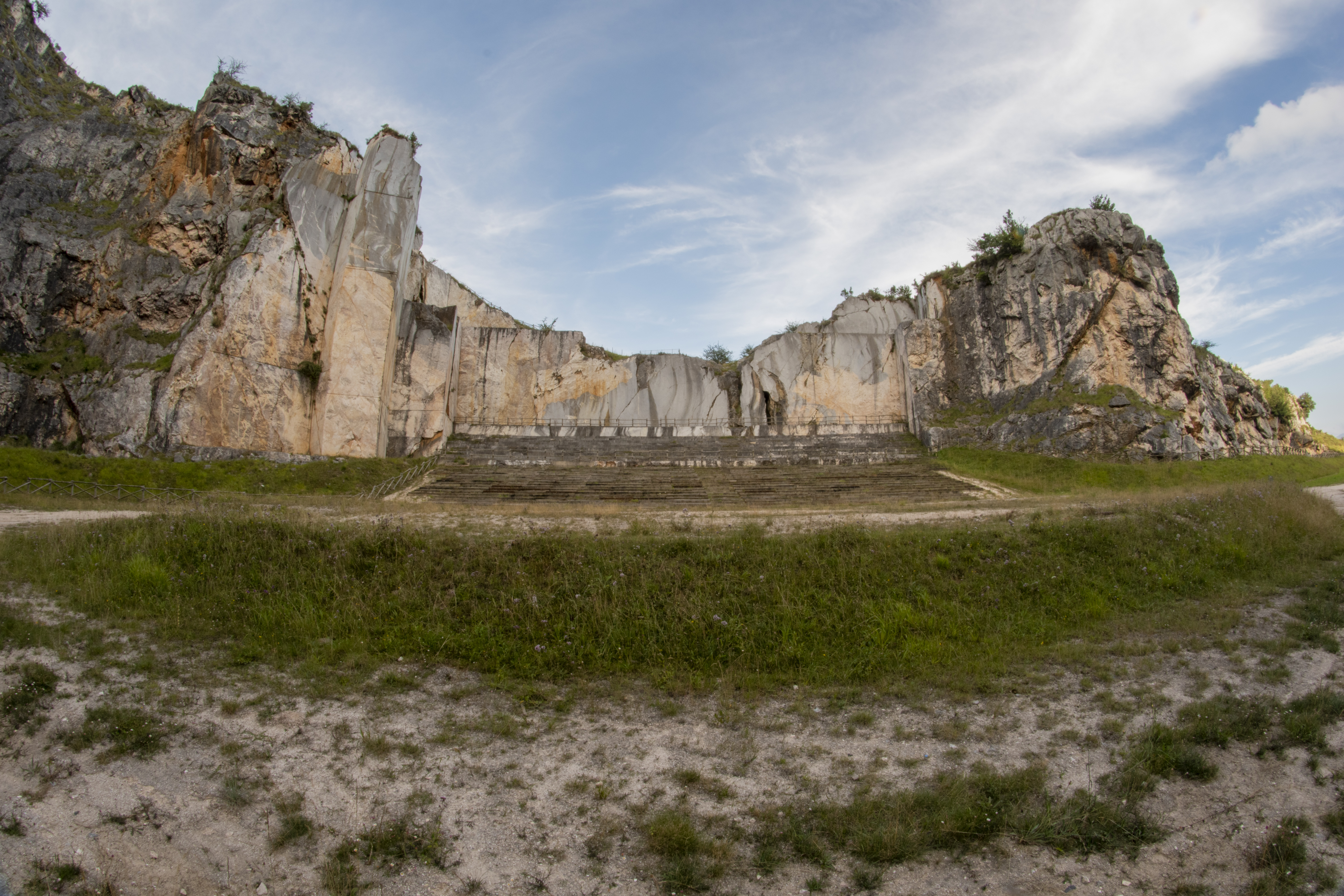 Quarry of Dolomitas del Norte S.L. at Pozalagua, Karrantza. Irudi hau Wikibizi kanpainaren baitan igo da, Euskal Wikilarien Kultura Elkarteak 2020an deitutako argazki lehiaketa hirukoitza. Helburua, Euskal Herria hobeto ezagutzen laguntzea da.Lagundu zuk ere irudi hau dagokion artikuluetan txertatzen.